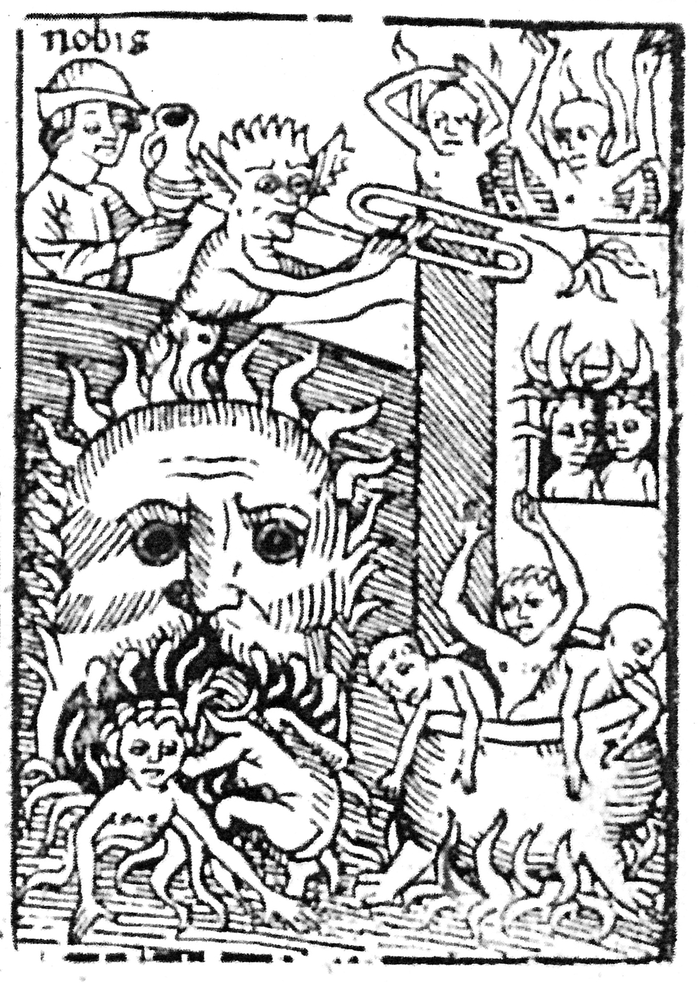 Nobiskrug. Woodcut. Title of "Eyn spegel aller lefhebbere der sundigen werlde", Magdeburg 1493